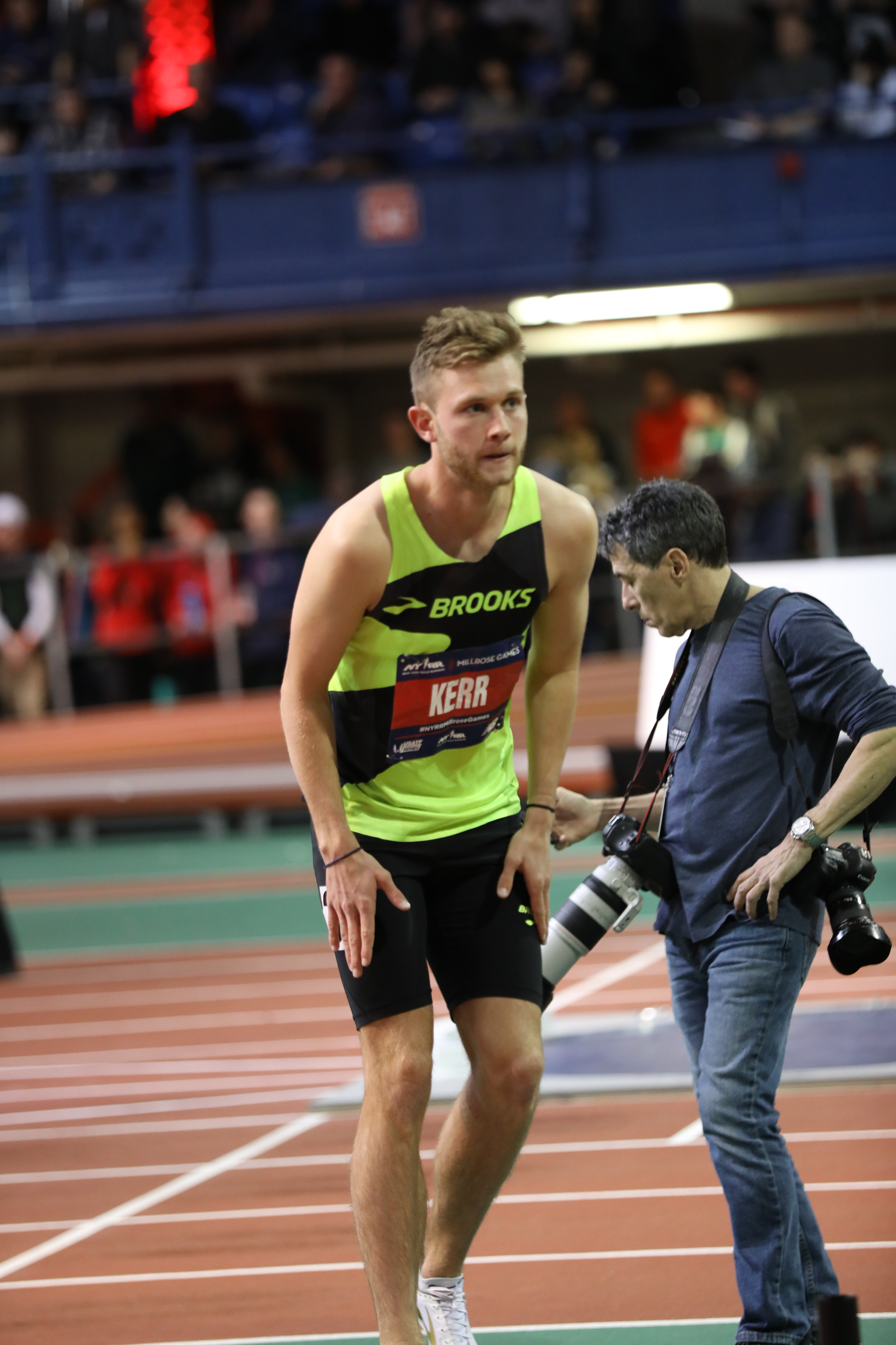 2019 Millrose Games